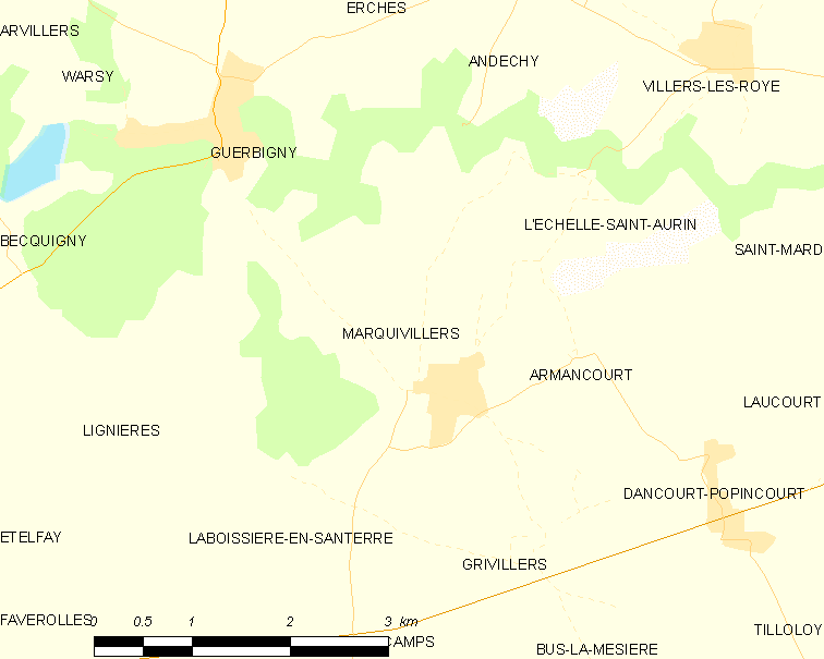 Map of French municipality Marquivillers